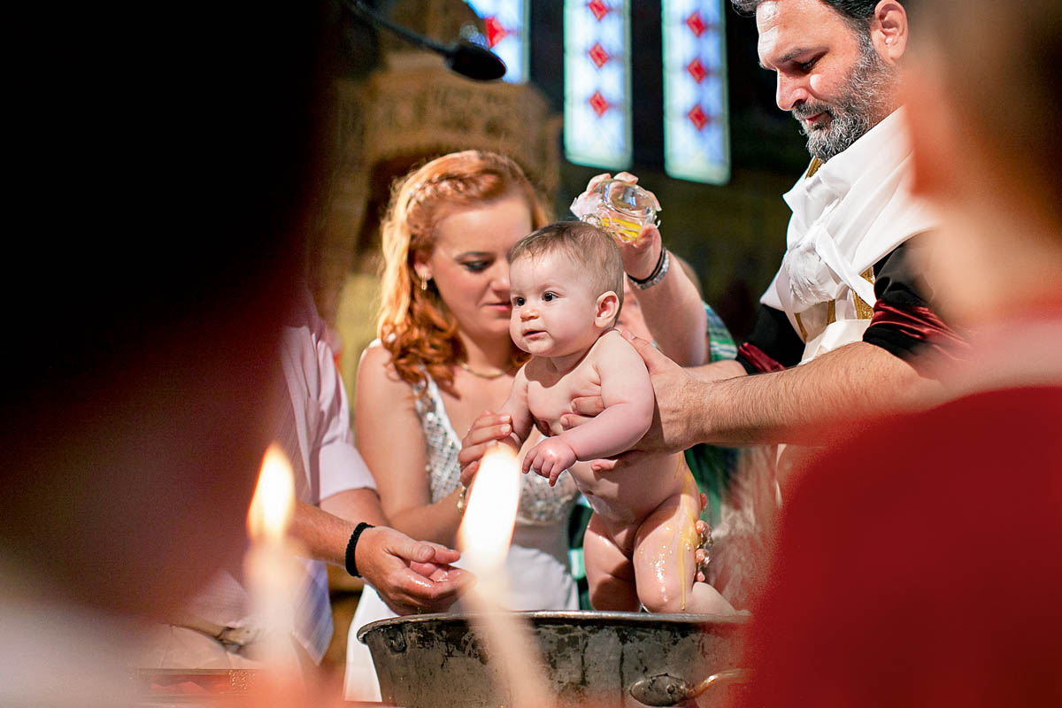 Christening photograph showing the oil moment and Baptism in Greek Orthodox Church.